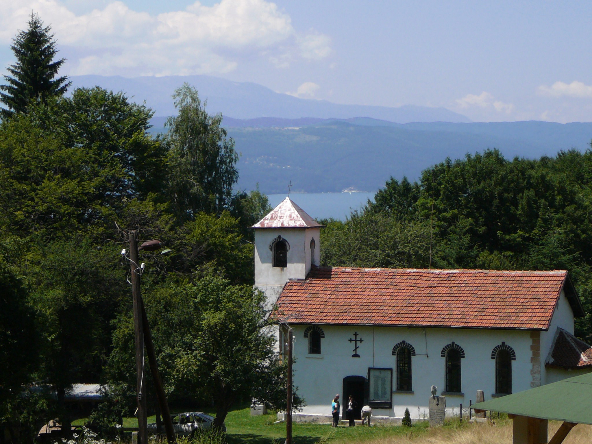 Shishmanovo Monastery, Bulgaria